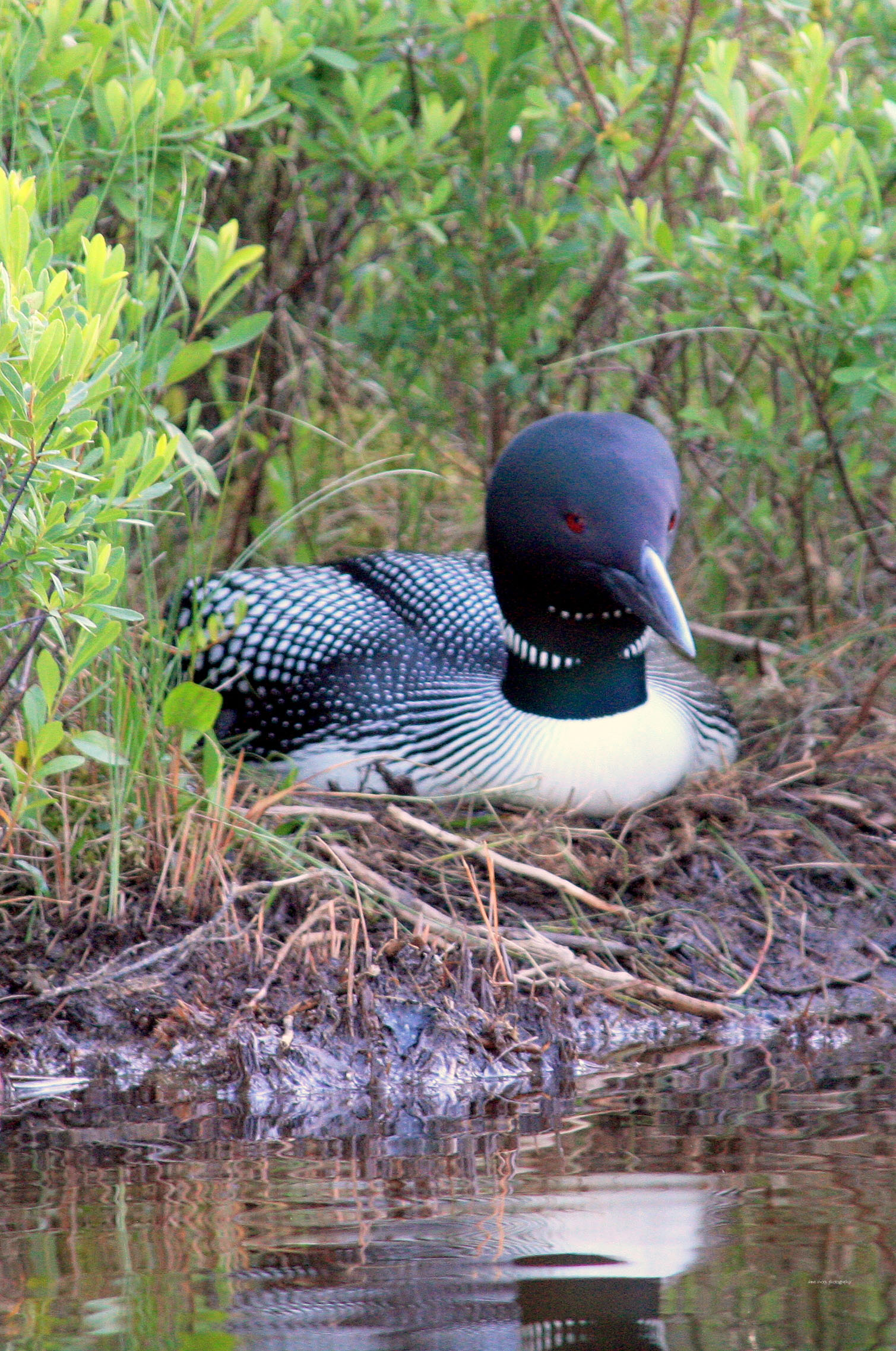 A Great Northern Loon (also known as Great Northern Diver and Common Loon) on a nest by water in Maine, USA.